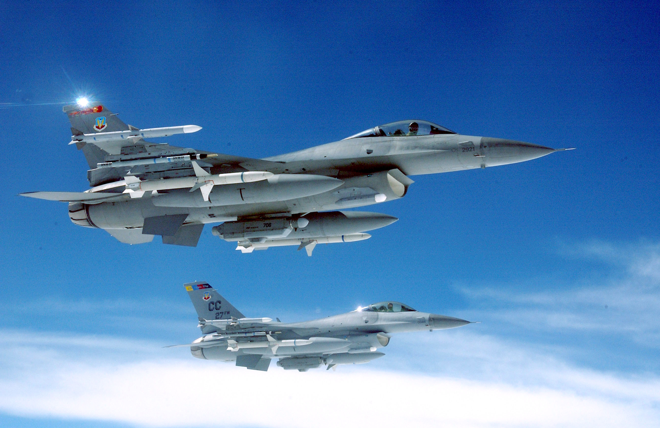 A pair of F-16C Fighting Falcons, assigned to the 27th Fighter Wing, Cannon Air Force Base, N.M., heads out for a mission over the Nevada Test and Training Ranges during Red Flag 04-3 here Aug 20. More than 100 aircraft and 2,500 participants are involved in this exercise. Red Flag is a realistic combat training exercise involving the U.S. Air Force and its allies.